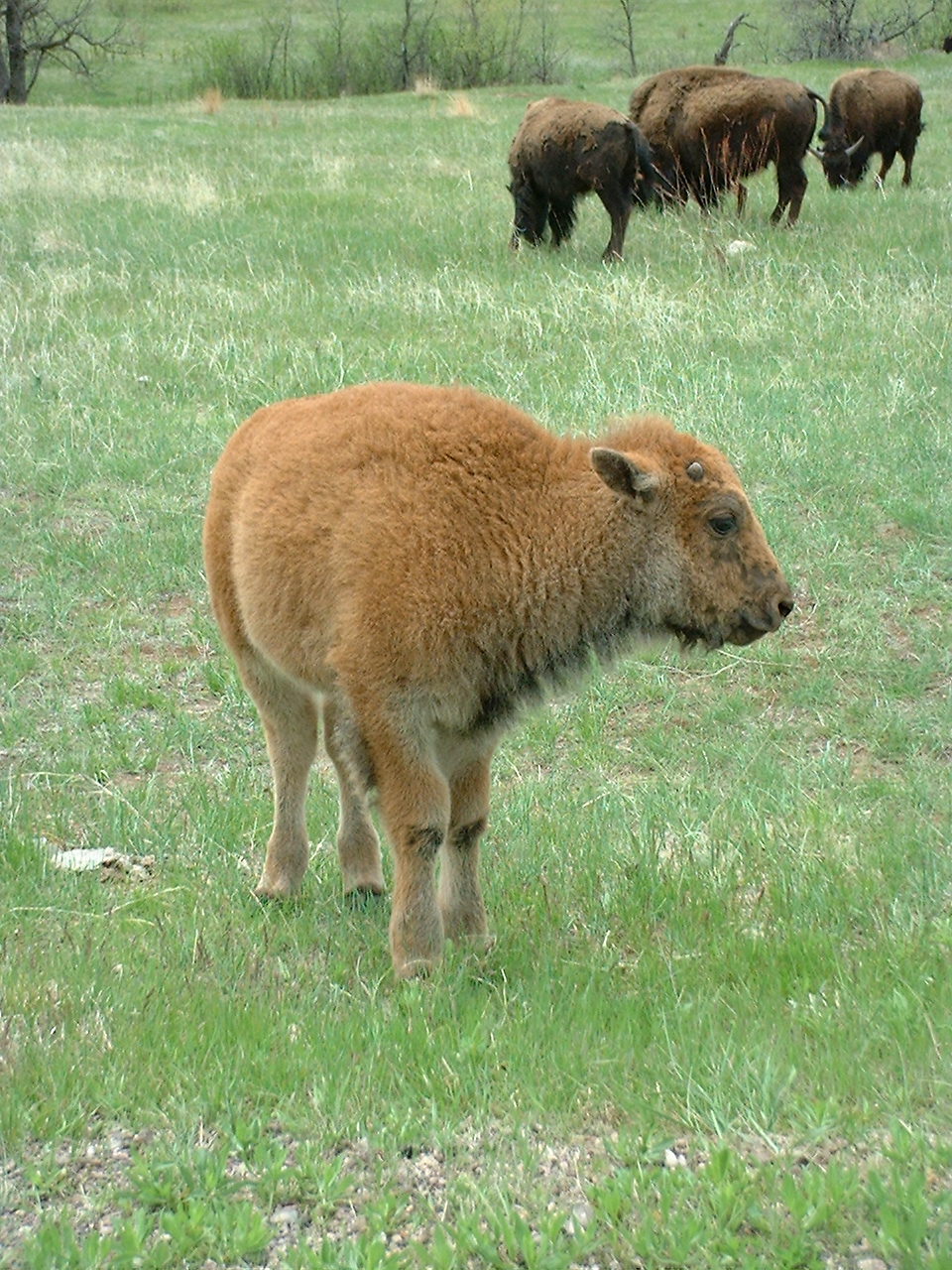 This is a photograph of a young bison taken in May of 2002 at Custer State Park